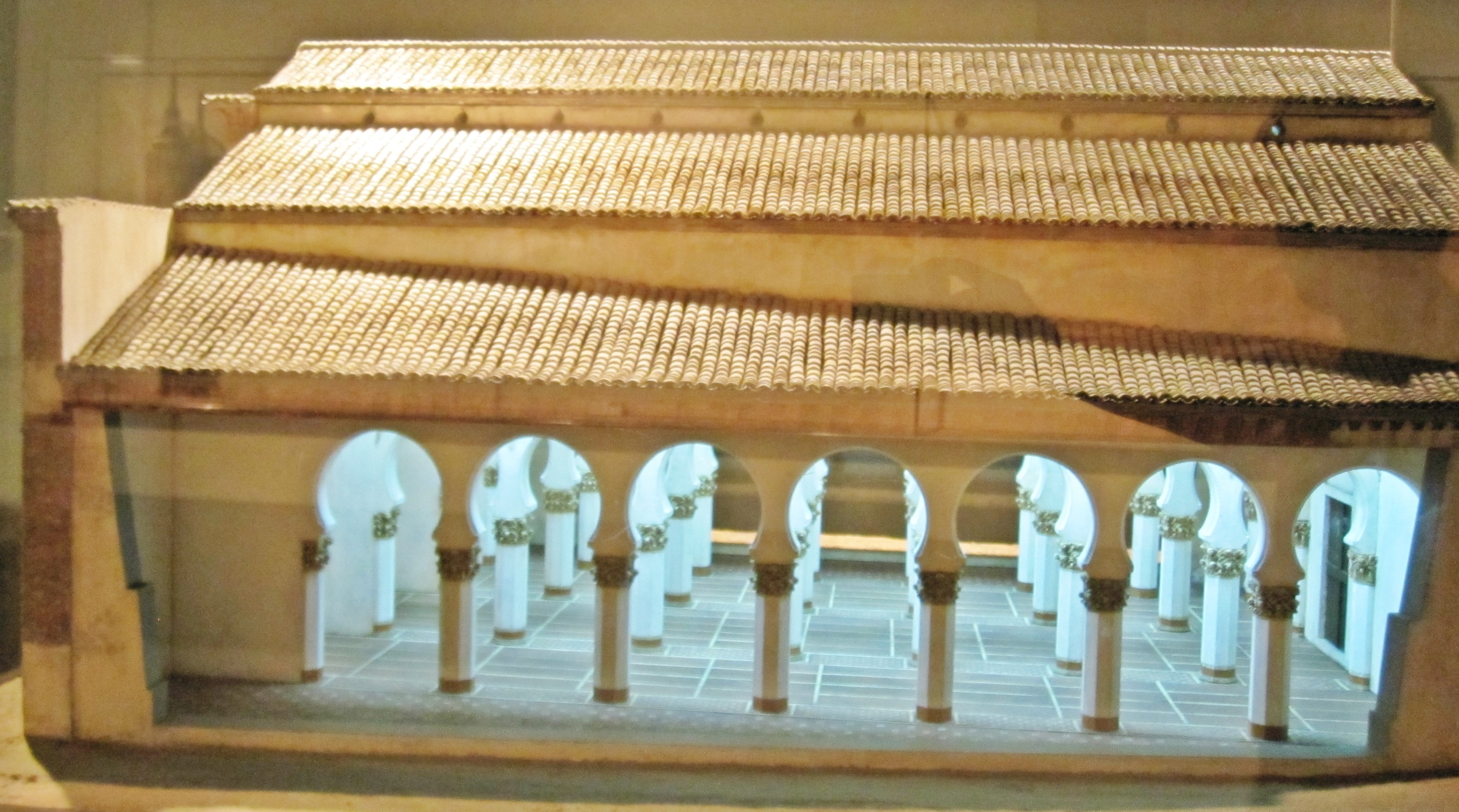 =This is a photo of an exhibit at the Diaspora Museum, Tel Aviv - Beit Hatefutsot. Model of Ibn Danan Synagogue (Fes)